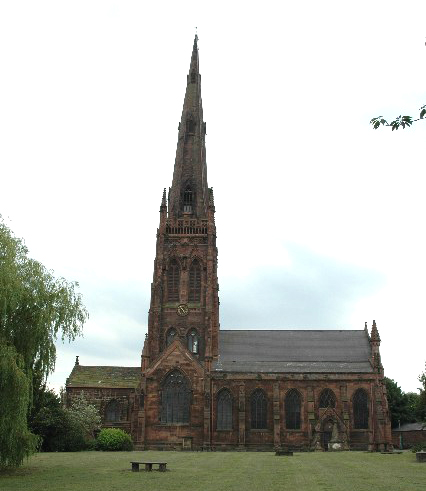 Photograph of St Elphin's Church, Warrington